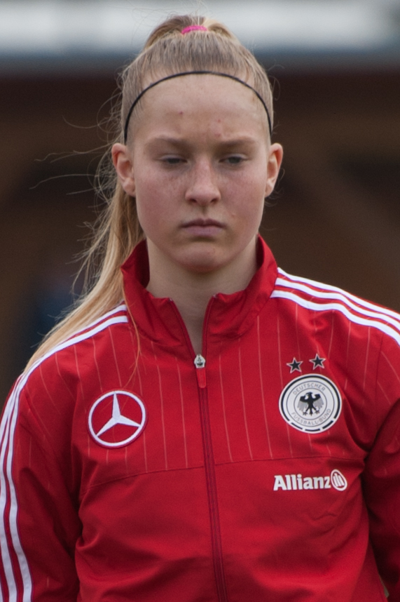 UEFA European Women's U17 Championship elite round Germany vs. Switzerland, 2016-03-19